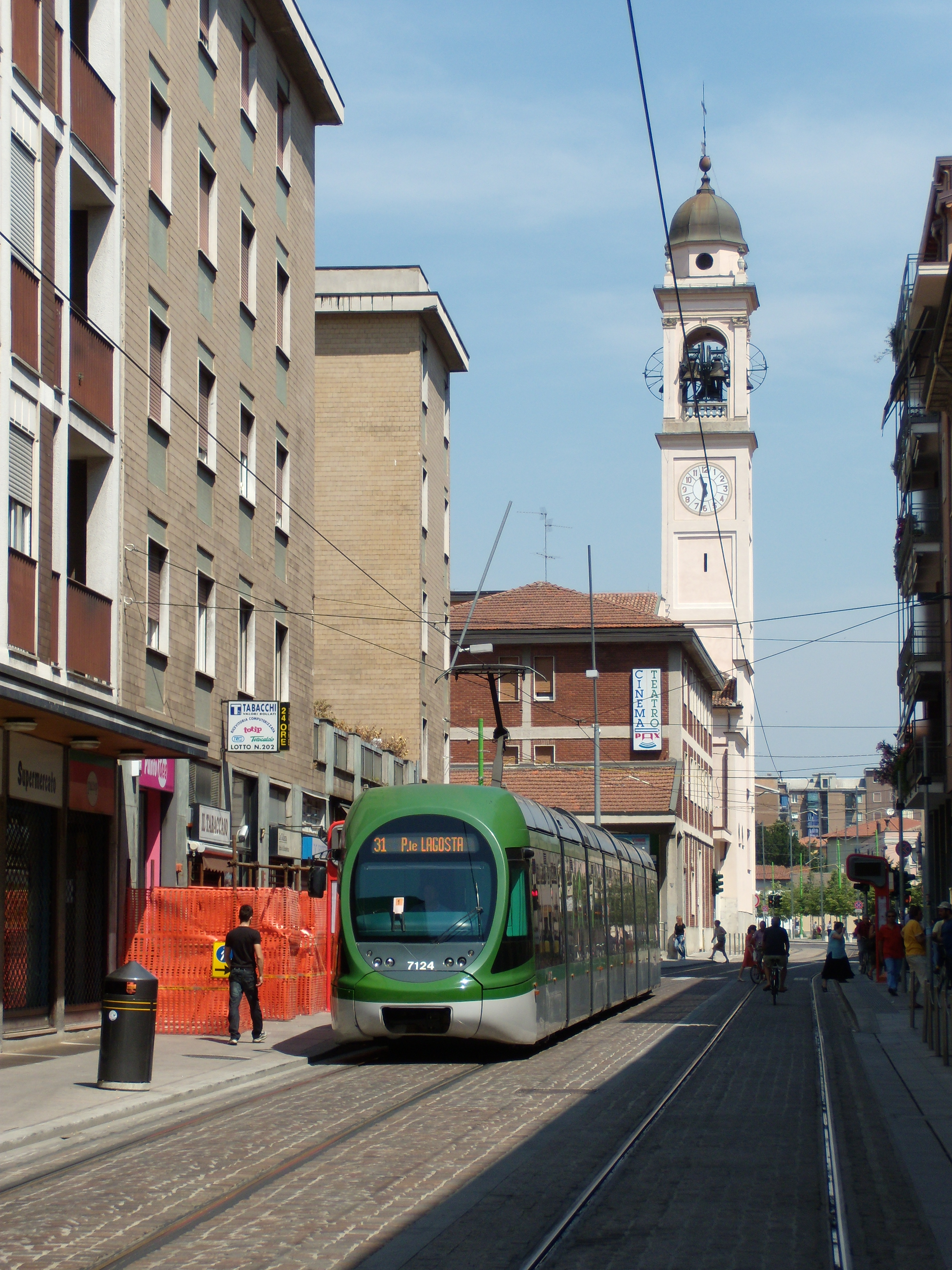 7124 a Cinisello Balsamo